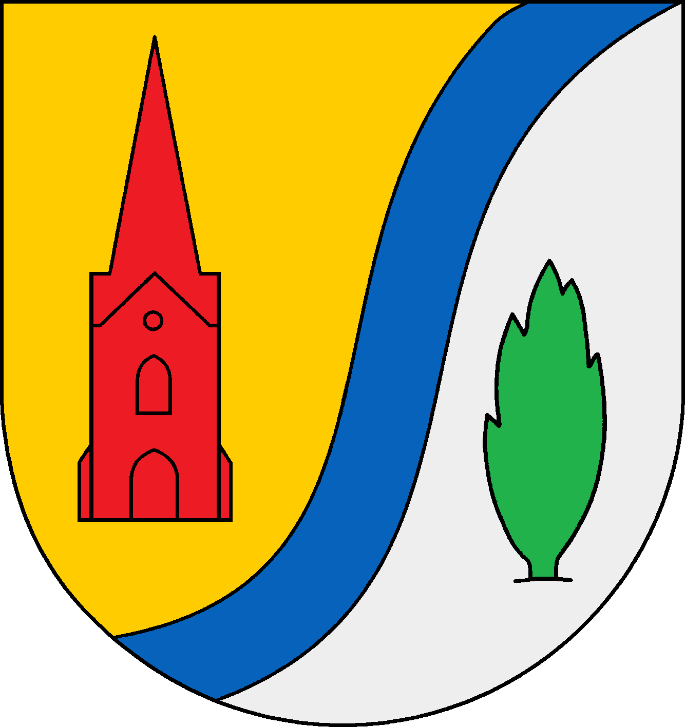 Coat of arms of the municipality Drelsdorf in Schleswig-Holstein, Germany.